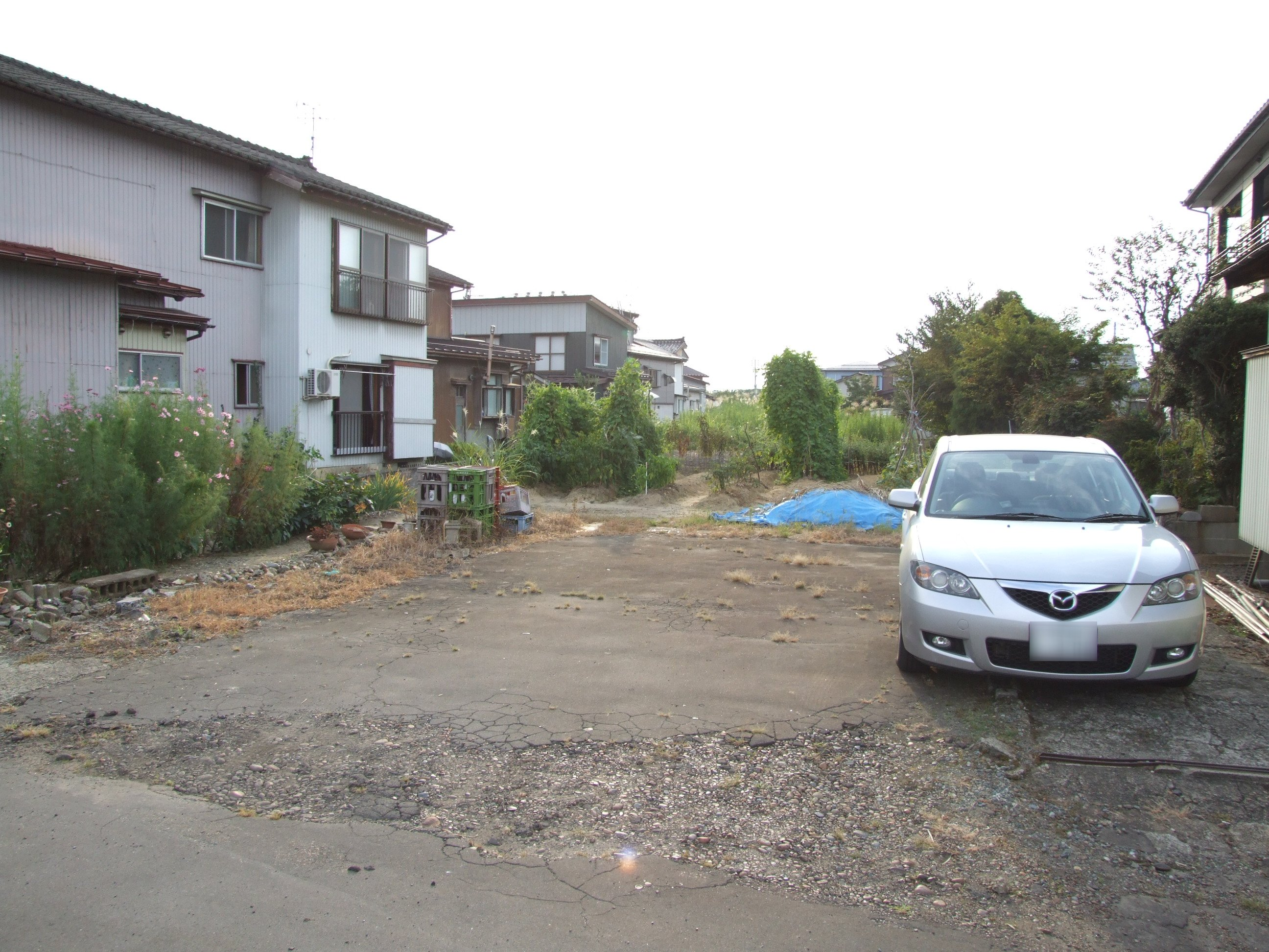 Remains of Kozone Station Tochio Line in 2011